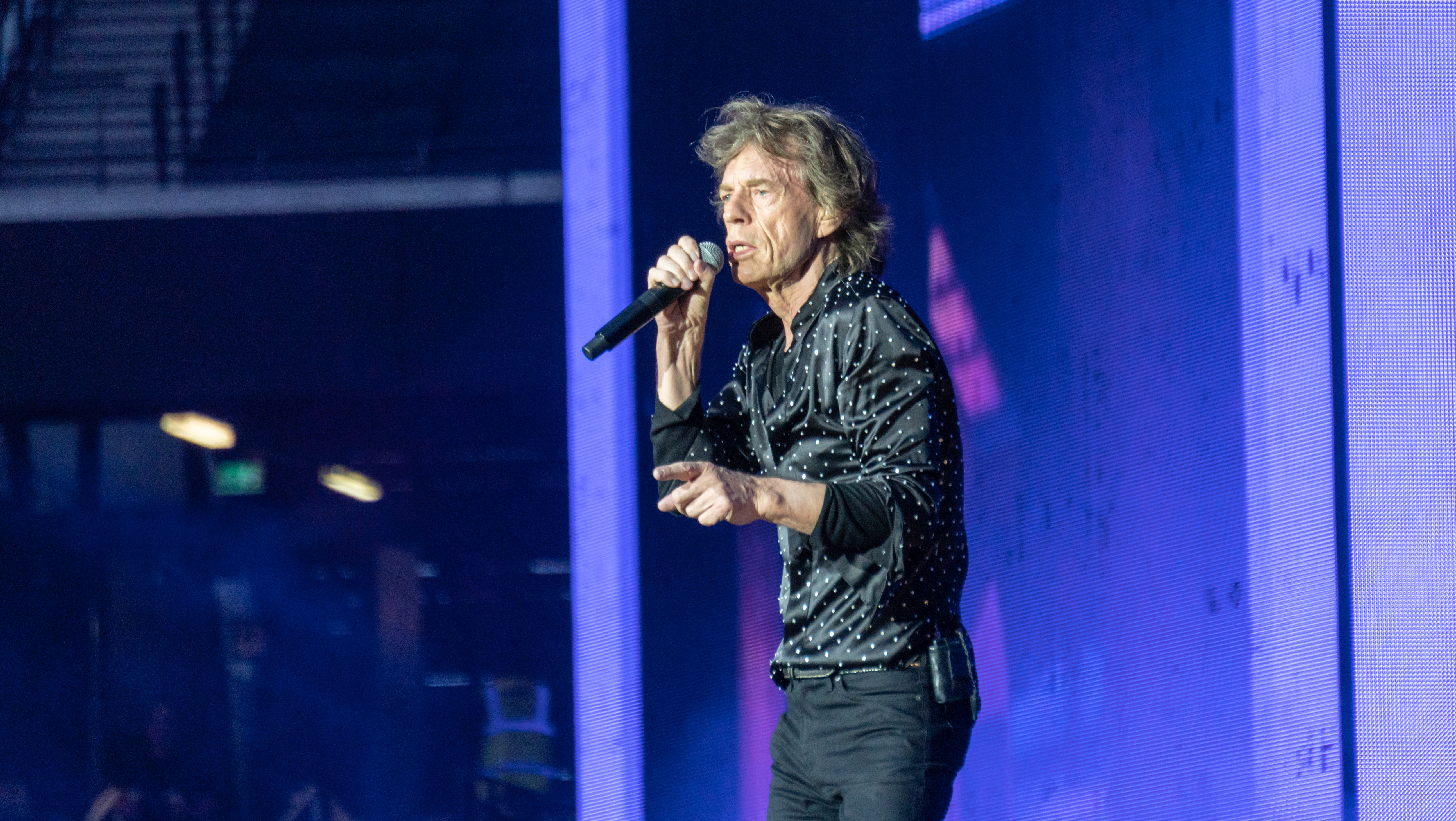 Mick Jagger sings during Rolling Stones concert in London on 22 May 2018.